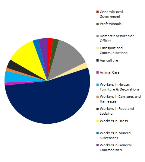 Pie chart showing the occupations of the population of Tur Langton in 1881